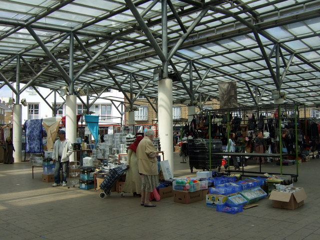 Chrisp Street market, under the canopy There was a thriving municipal market along Chrisp Street in the Victorian era. In 1951 the area was rebuilt, following wartime damage, as part of the Festival of Britain, and the market relocated in the centre of a new pedestrianized shopping precinct. The canopy was added in the 1980s.